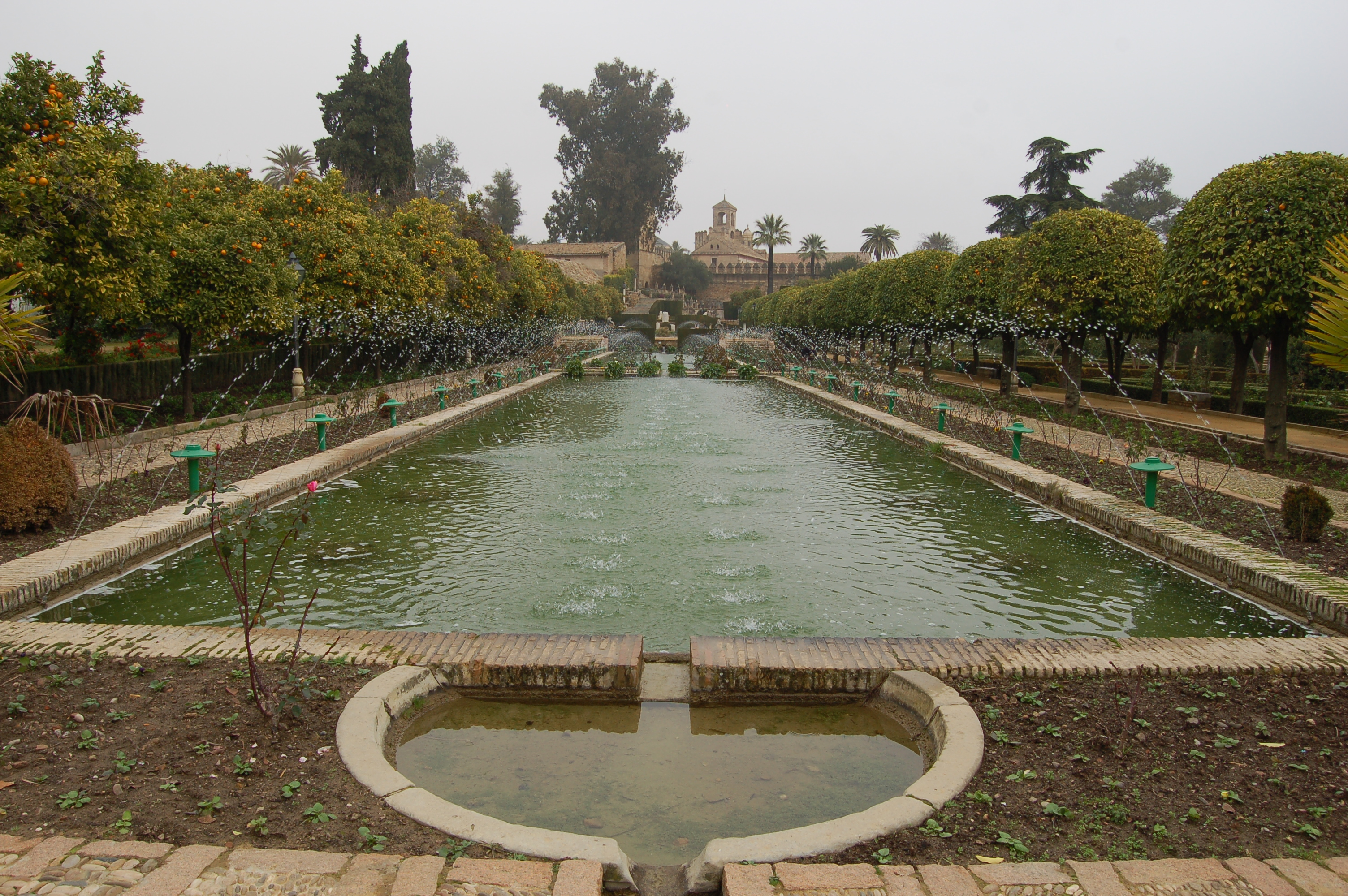 Photograph of the gardens of the Alcazar of the Christian Monarchs in Cordoba